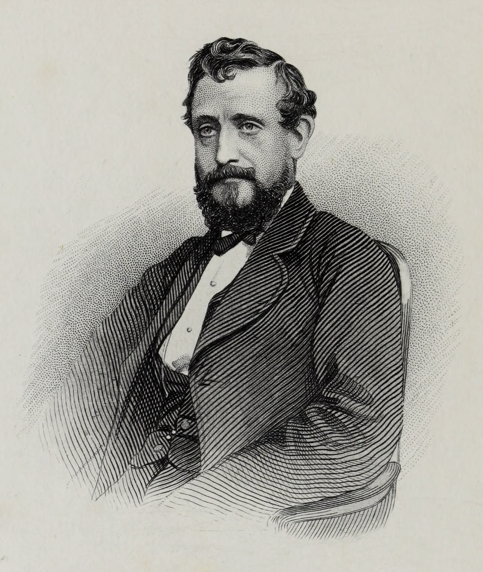 Portrait of James Thomson (B.V.)